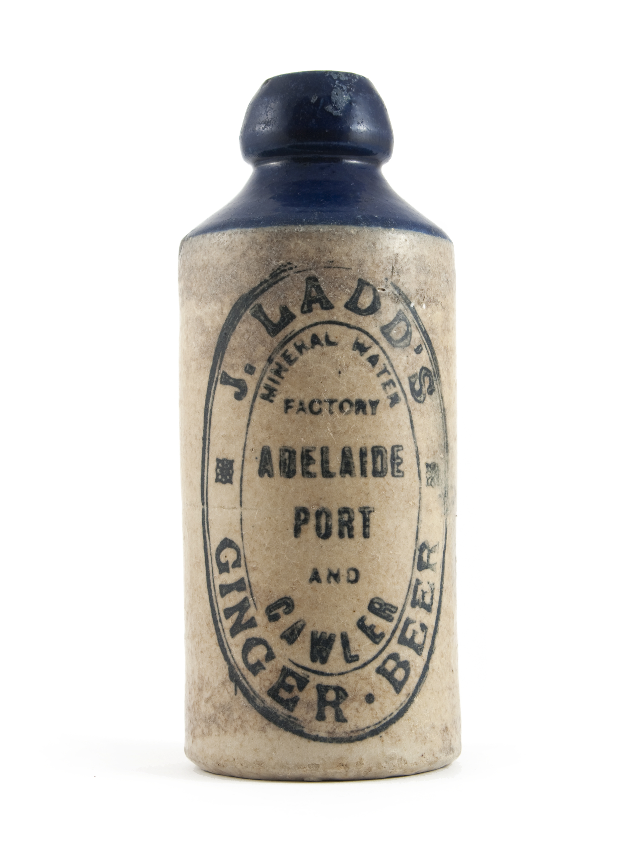 Bottle used for J. Ladd's ginger beer, produced in Adelaide, South Australia.